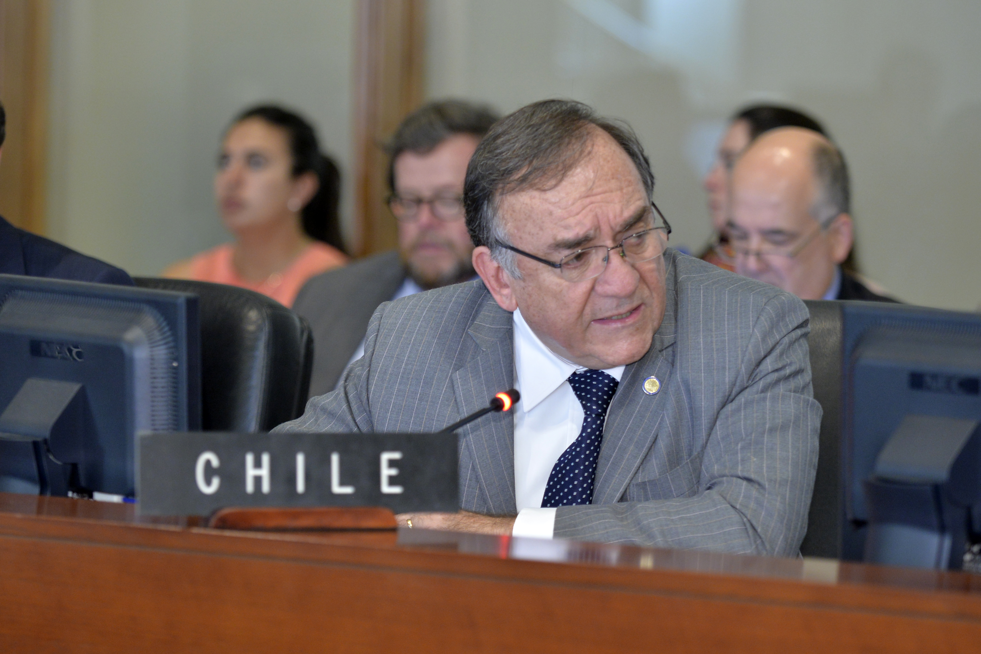 Juan Pablo Lira, Ambassador, Permanent Representative of Chile to the OAS Date: May 7, 2015 Place: Washington, DC Credit: Juan Manuel Herrera/OAS